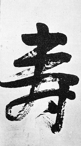 Letter from Emperor Taisho to Mitsuaki Tanaka